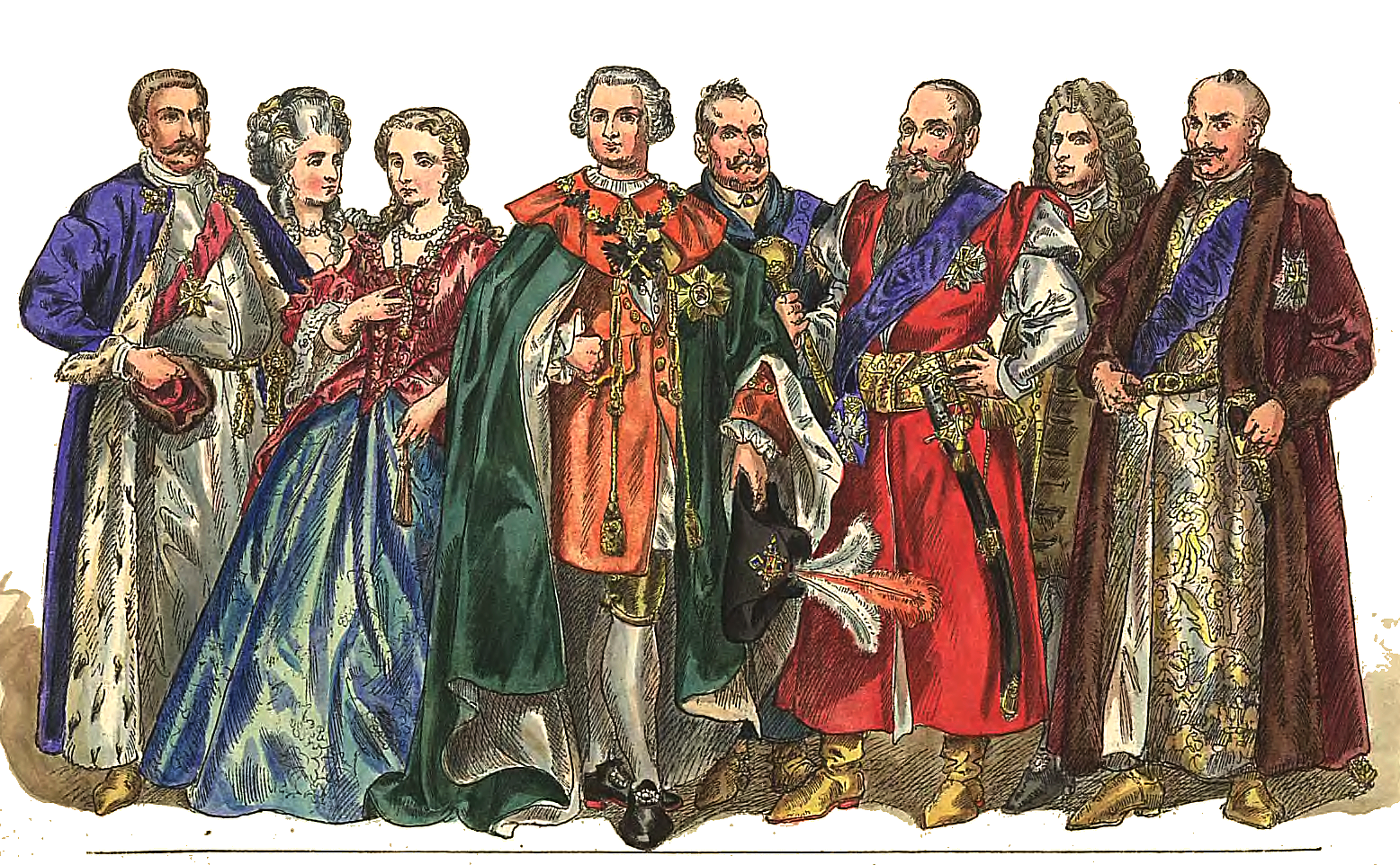 Polish magnates 1697-1795: Stanisław Leszczyński (1677-1766) w stroju magnackim, kobieta, Katarzyna z Opalińskich Leszczyńska (1680-1747), Antoni Michał Potocki? (?-1765), Karol Stanisław Radziwiłł zw."Panie Kochanku" (1734-1790), Wacław Rzewuski (1706-1779), Józef Michał Mniszech (1748-1806) i Michał Potocki? (?-1749).